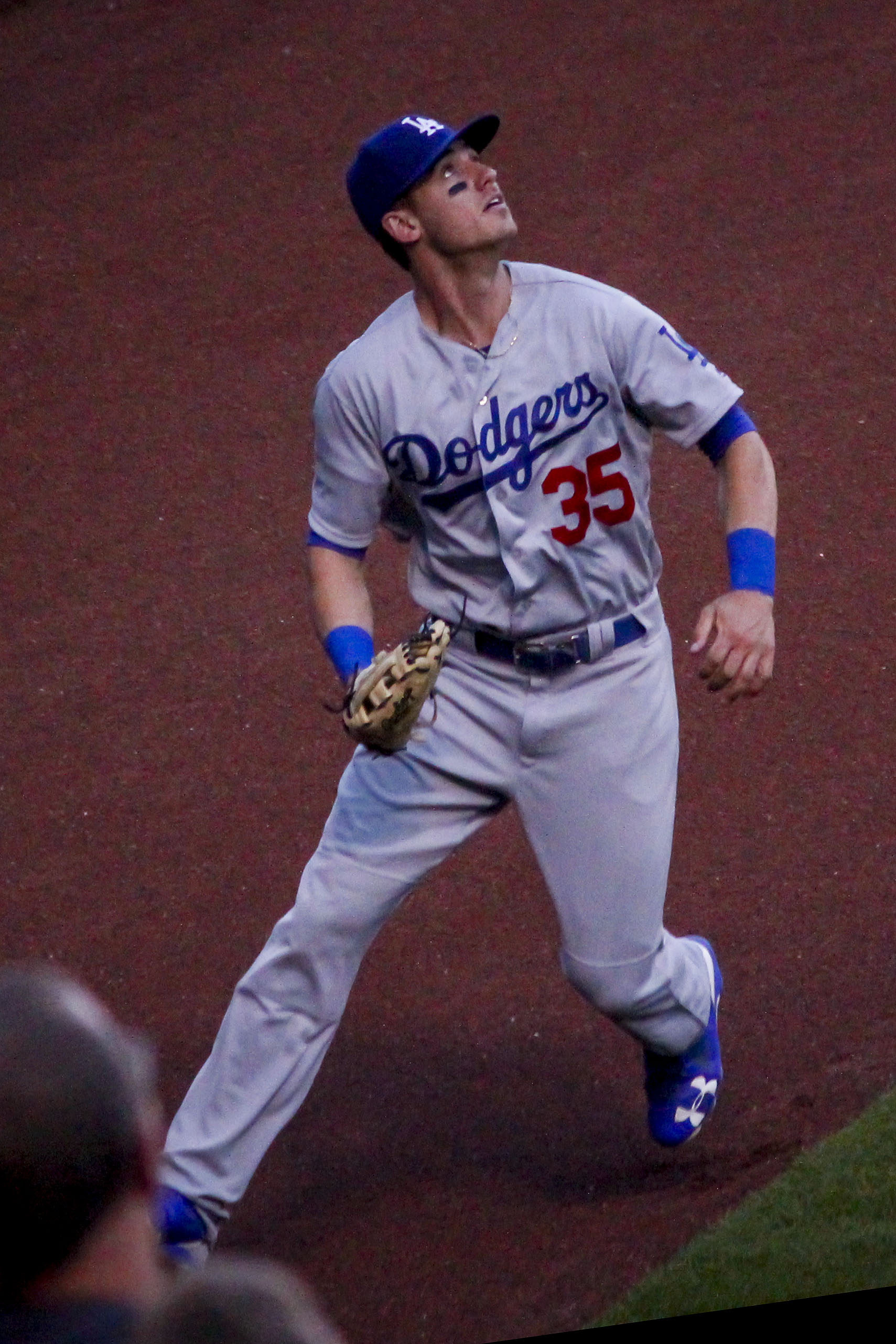 Cody Bellinger of the Los Angeles Dodgers